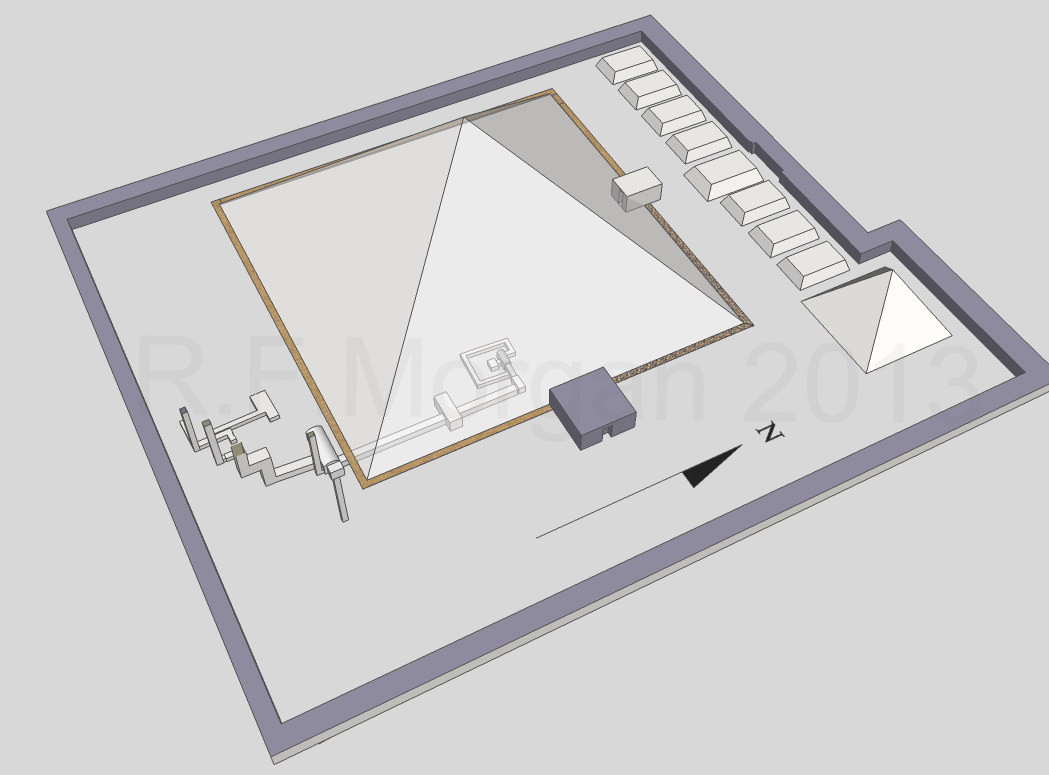 Image of the pyramid of Senusret II taken from a 3d model